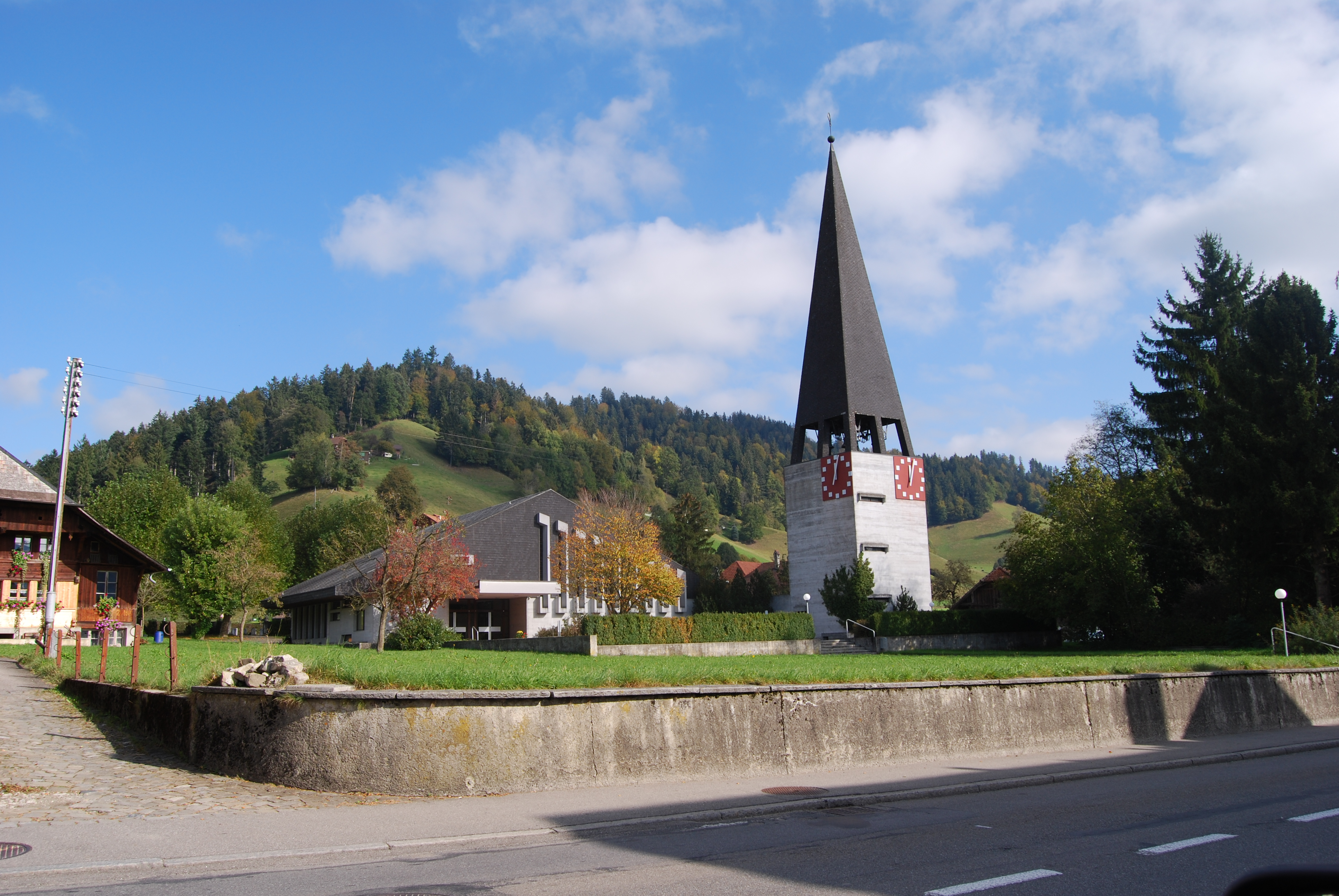 Church of Zäziwil, canton of Bern, SwitzerlandEsperanto: Preĝejo de Zäziwil, Kantono Berno, Svislando